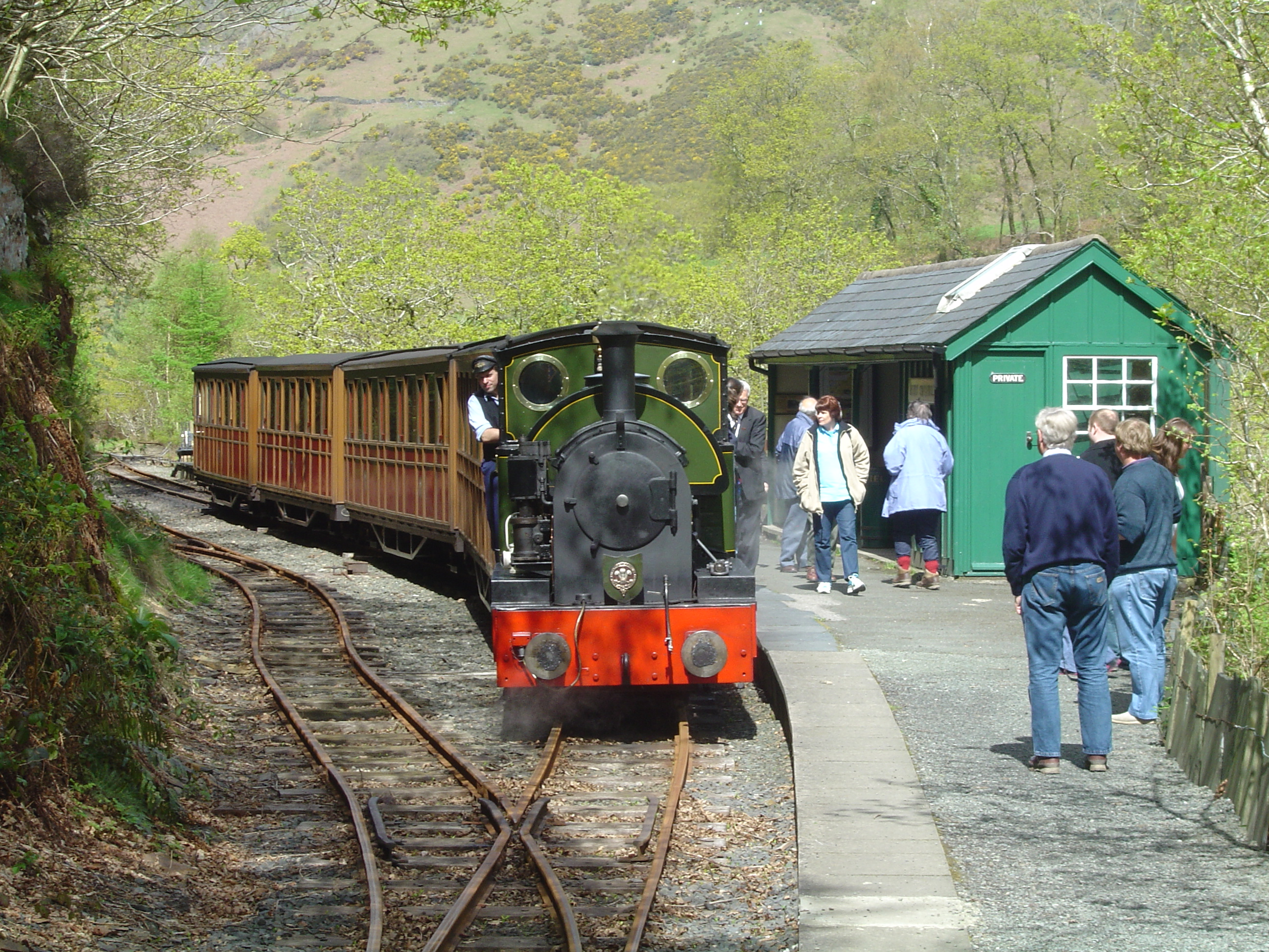 Talyllyn Railway Number 4: Edward Thomas at Nant Gwernol